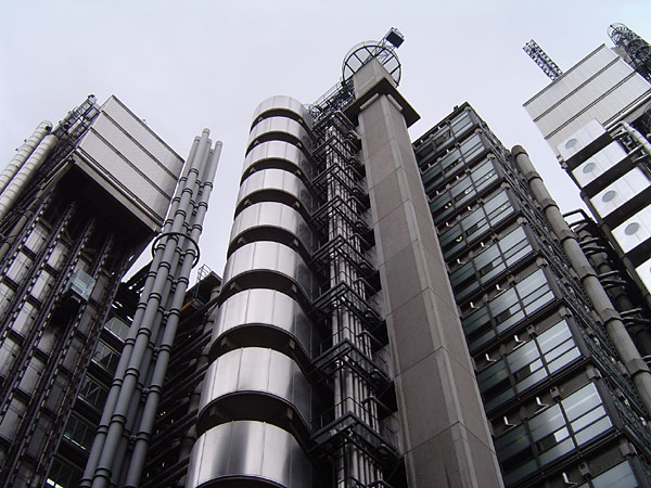 Lloyds Building, City of London